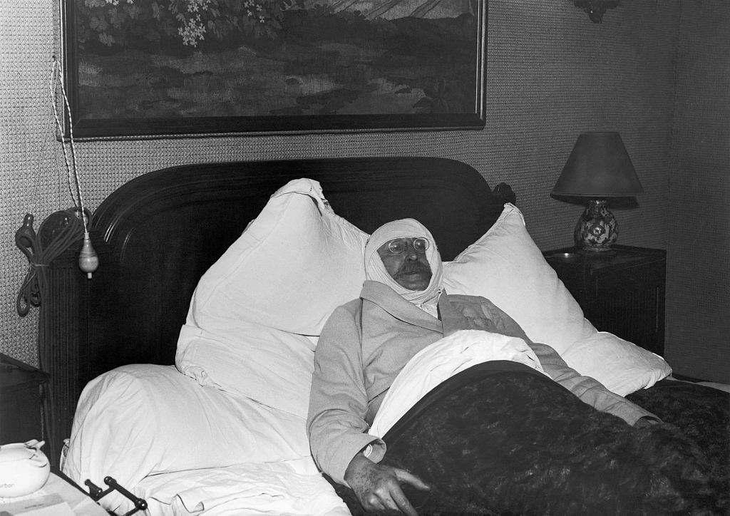 PARIS, FRANCE - FEBRUARY 13: The Front Populaire leader, Leon Blum, was severely injured by some antisemitic far-right supporters when coming out of the Palais Bourbon on February 13, 1936 in Paris, France.